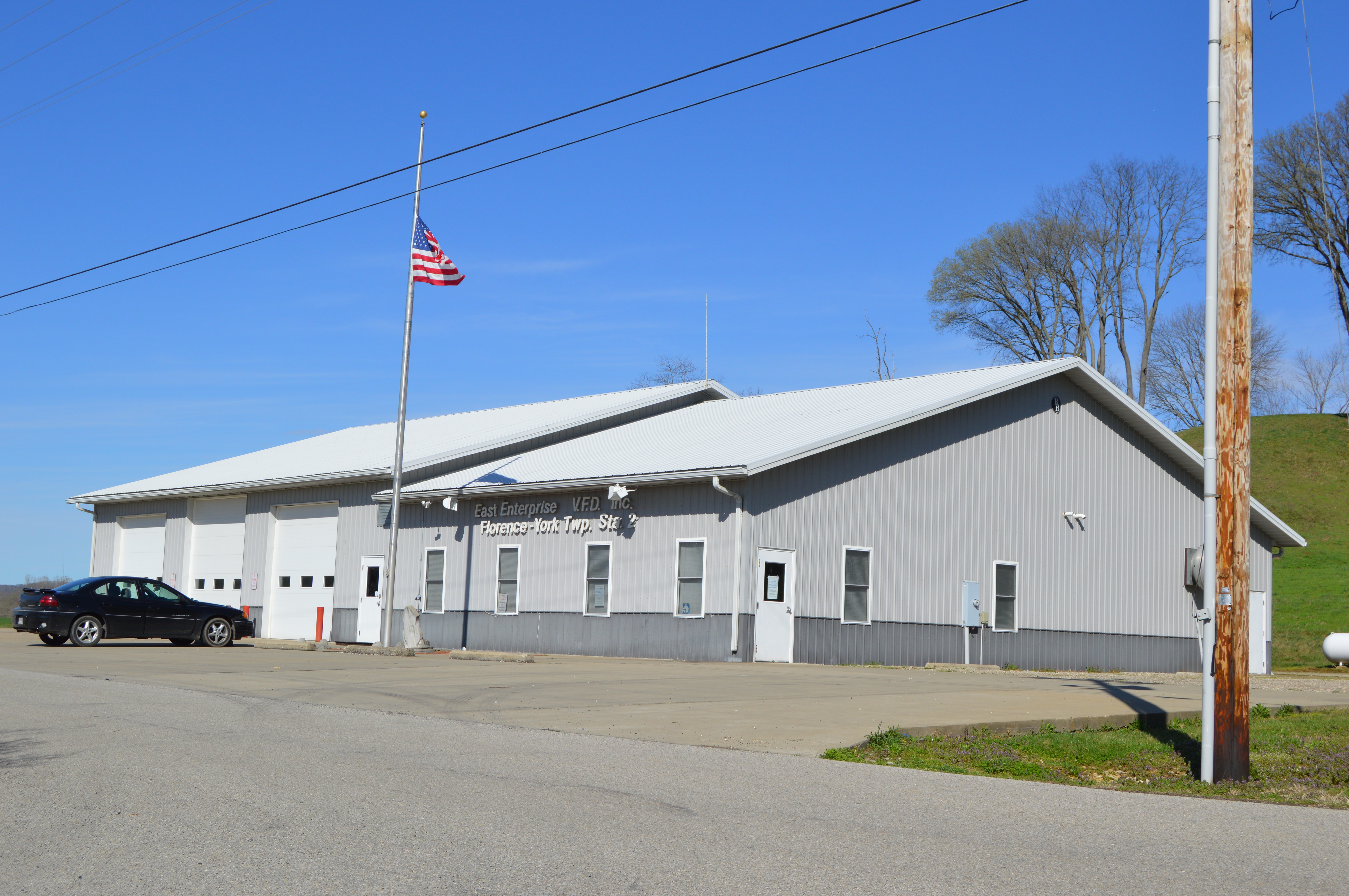 Front and eastern end of the East Enterprise Volunteer Fire Department (Florence-York Township Station #2), located at 301 Hill Road in Florence, Indiana, United States.